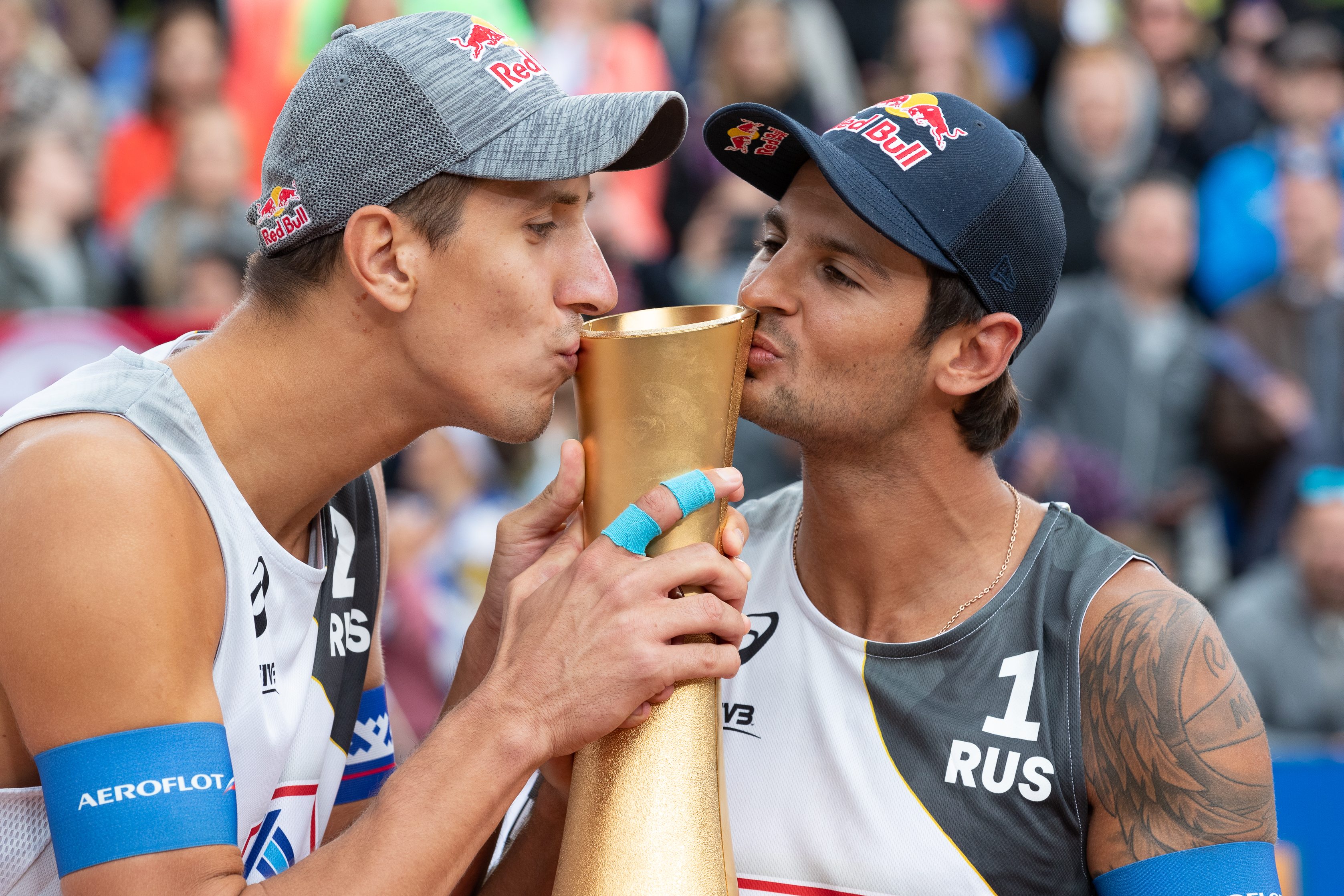 2019 Beach Volleyball World Championships; left-to-right: Oleg Stoyanovskiy and Viacheslav Krasilnikov (RUS, Russia) are kissing the trophy; award ceremony, winner, world champions